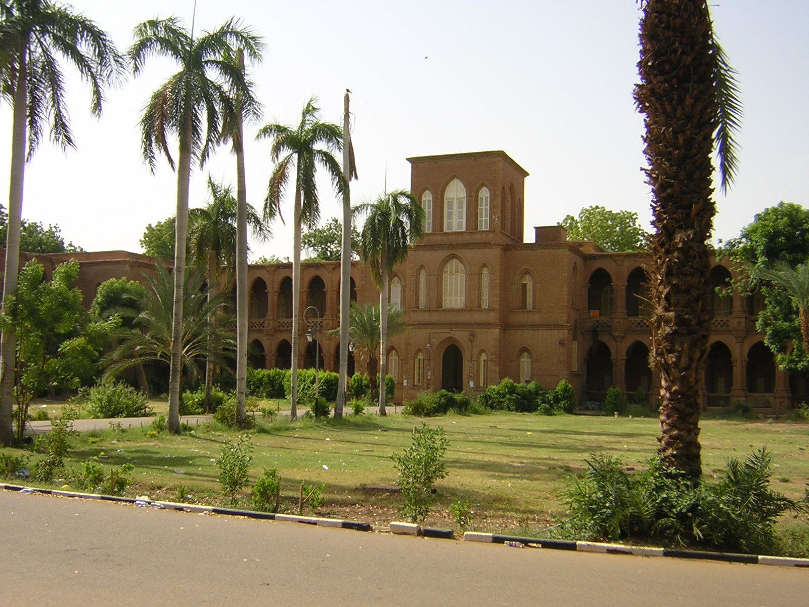 Faculty of Science of the University of Khartoum, Khartoum, Sudan.